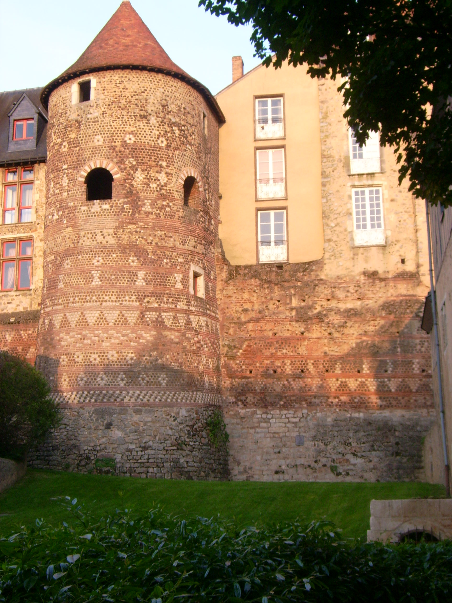 Ancient Roman defensive walls of Le Mans-France